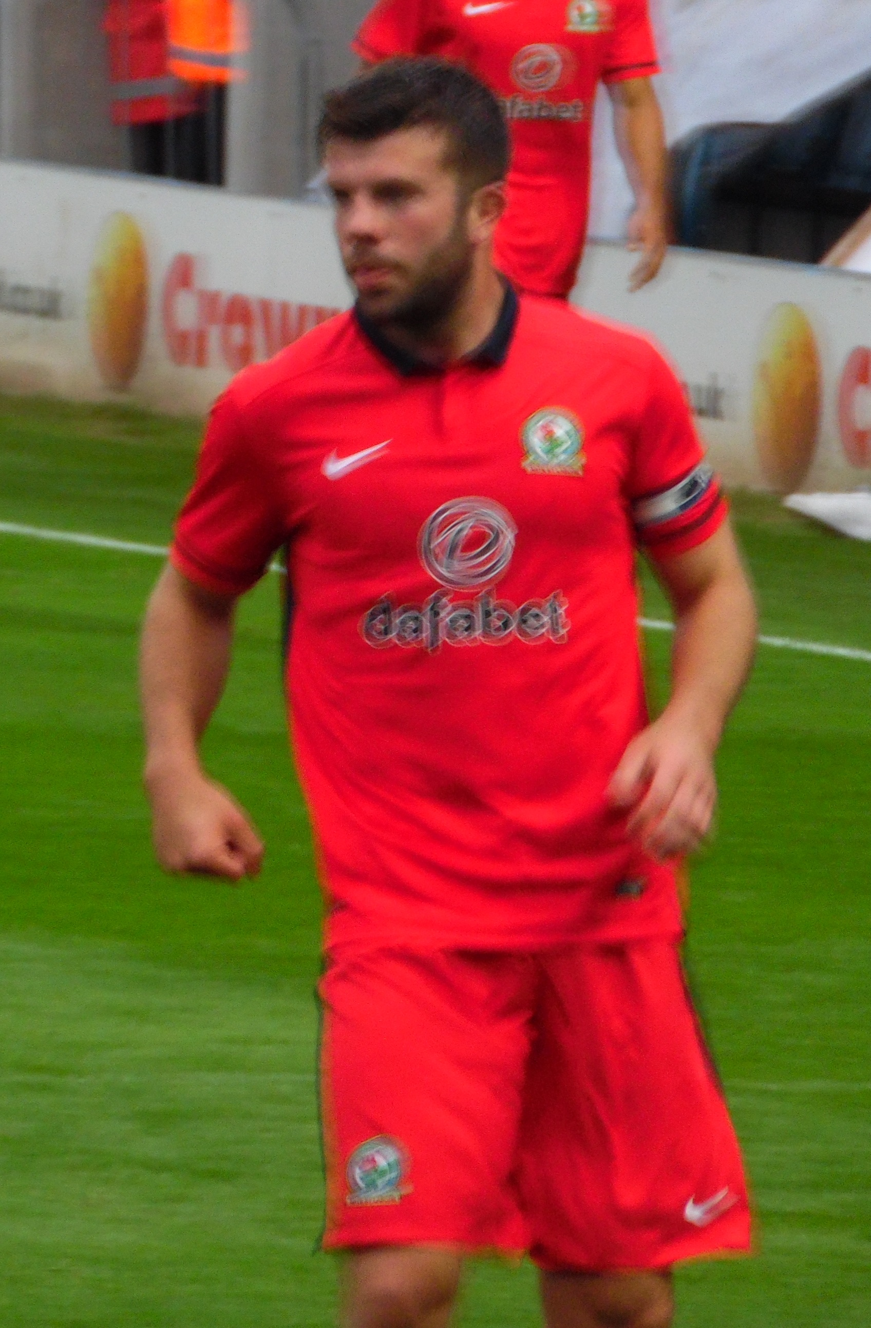 Grant Hanley in 2015